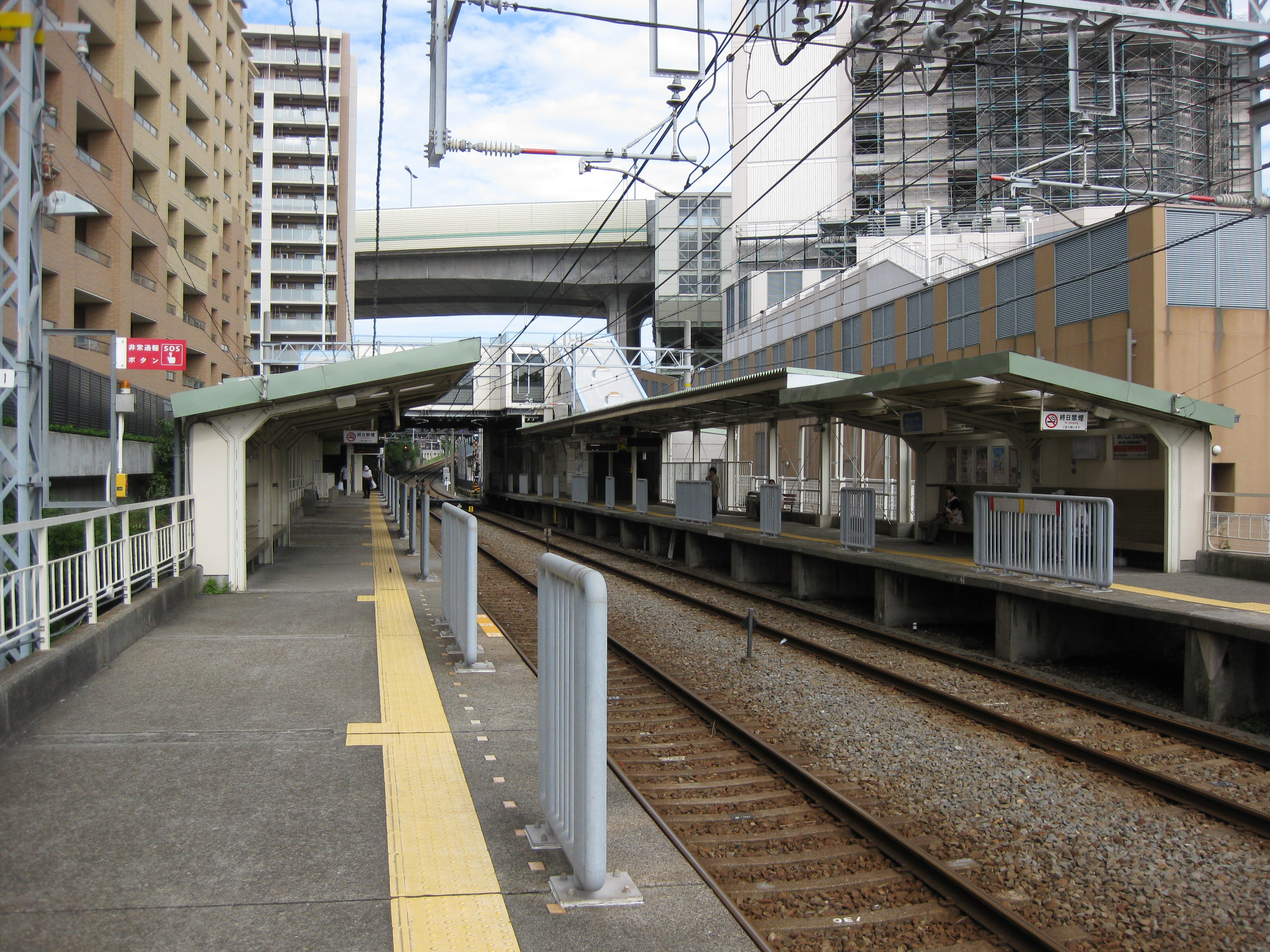 Platforms at Maiko-koen Station